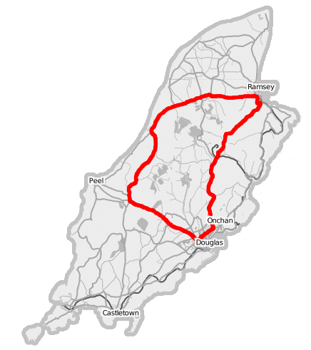 This map may be incomplete, and may contain errors. Don't rely solely on it for navigation.